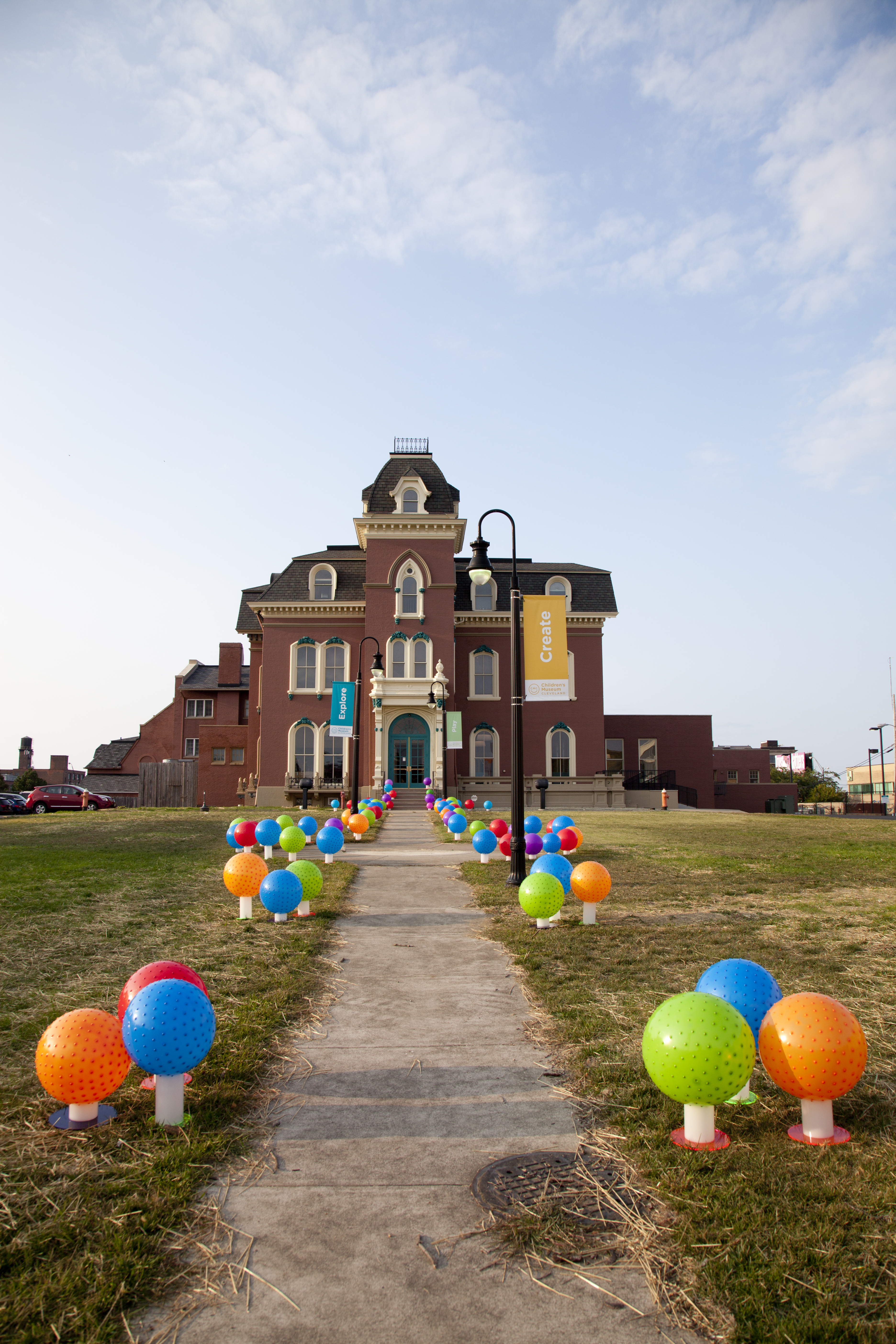 The Children's Museum of Cleveland (CMC) is located in the former Stager-Beckwith mansion, one of Cleveland's original Millionaire's Row mansions, built in 1866. It is located at 3813 Euclid Avenue.